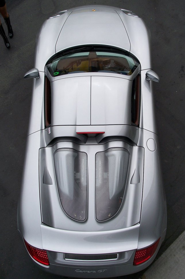 Porsche Carrera GT Top ViewPorsche Carrera GT Top View